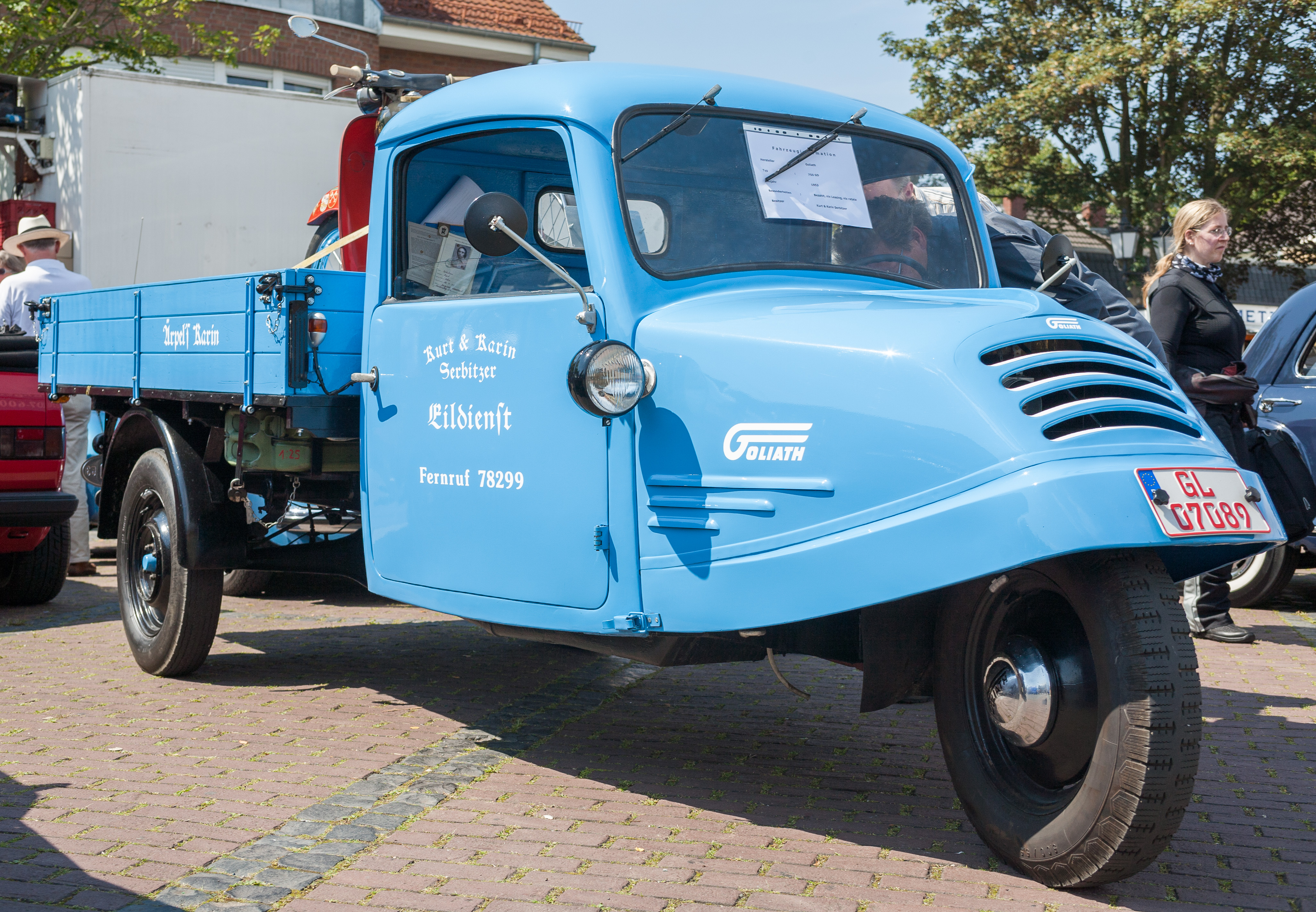 A 1953 Goliath GD 750, photo taken at “Rheinbach Classics 2007”, a vintage car convention at Rheinbach